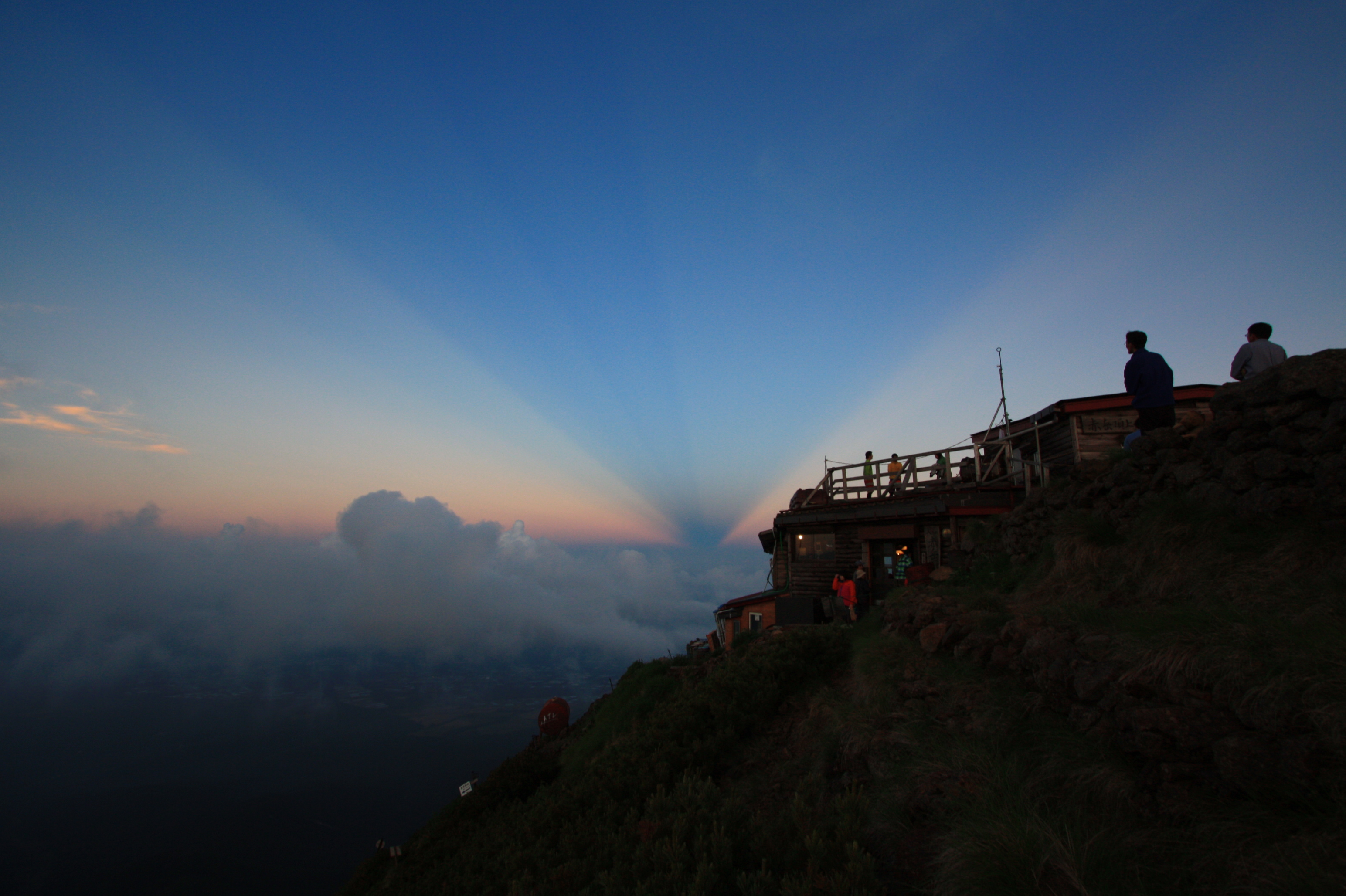 Anticrepuscular rays observed at Mount Aka